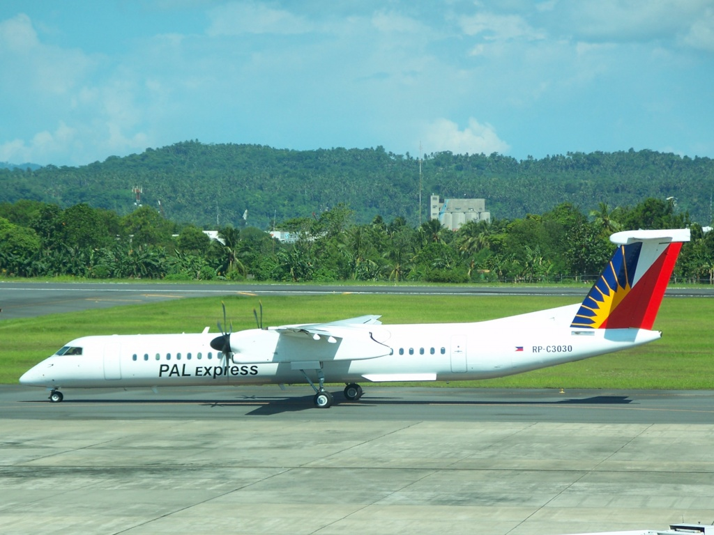 De Havilland Canada DHC-8-400 "Dash8" of PAL Express at Davao International Airport Cebuano: PAL Express Bombardier Dash 8 sa Tugpahanang Pangkalibutanon sa Francisco Bangoy